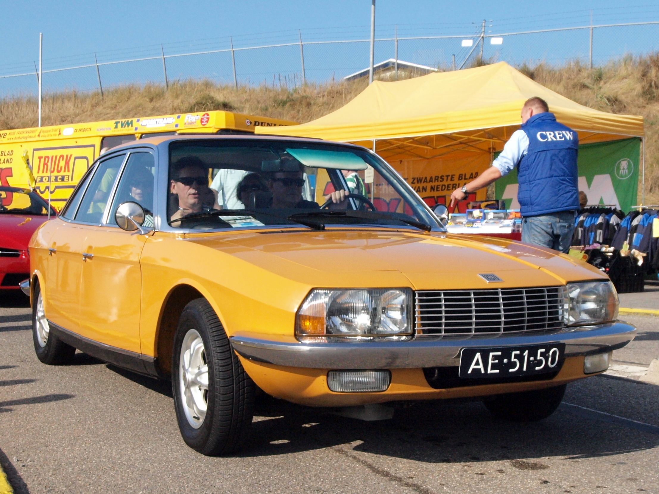 Photographed at the Nationaal Oldtimer Festival Zandvoort 2009, The Netherlands. OLYMPUS DIGITAL CAMERA